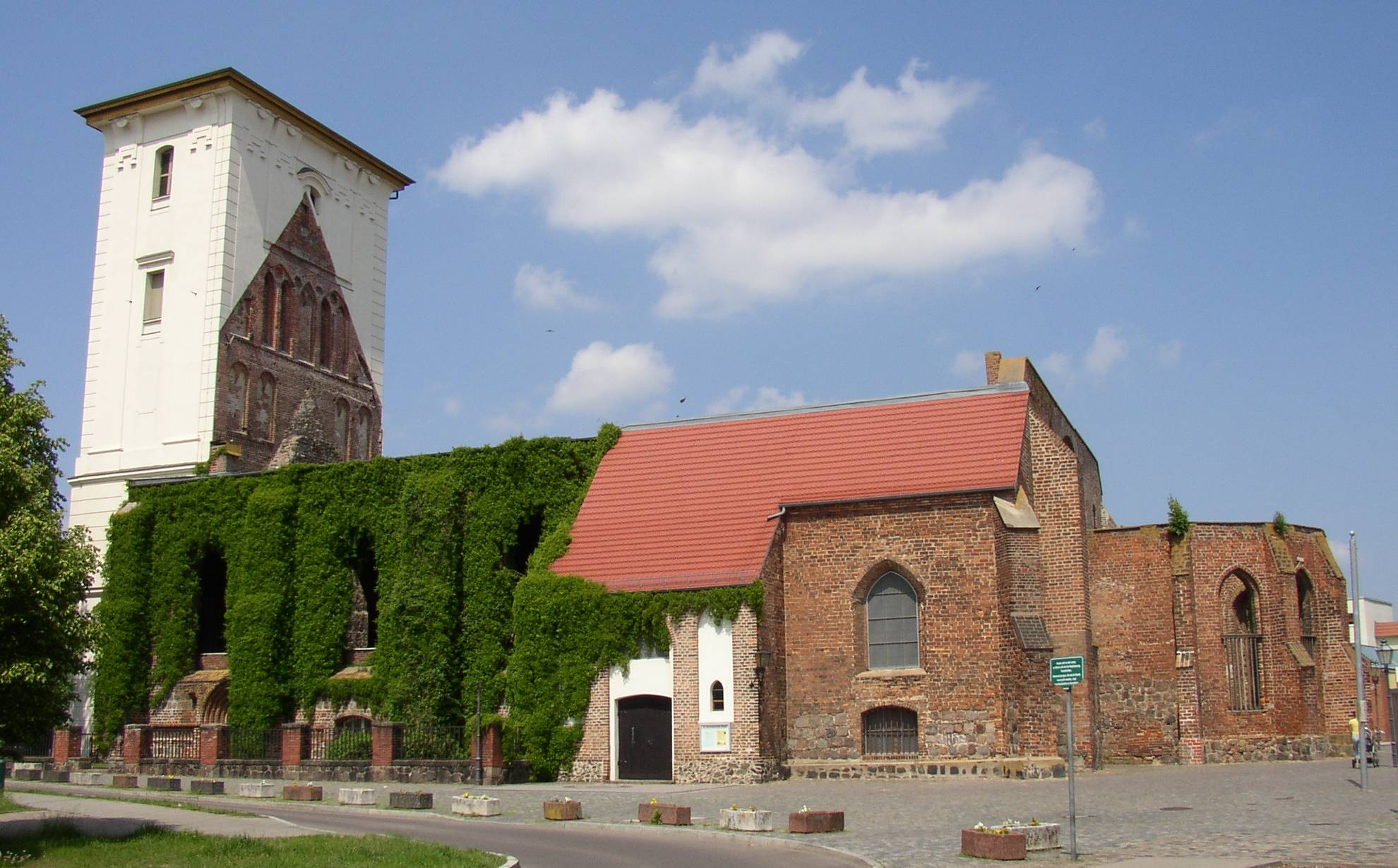 Church in Wriezen in Brandenburg, Germany